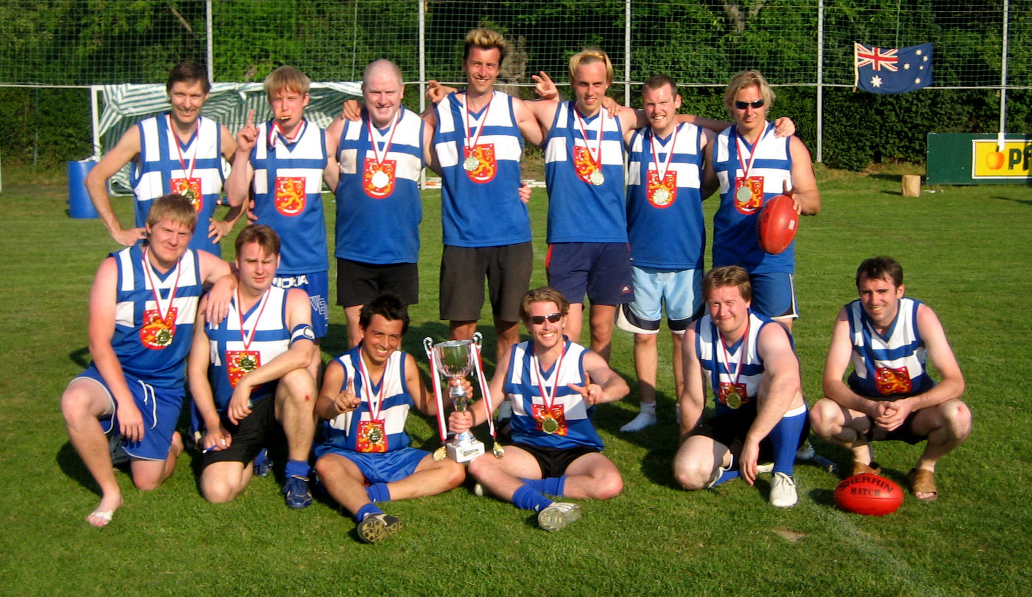 Aussie rules team of Finland